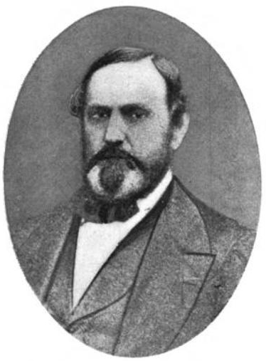 James H. Garrard, grandson of Governor James Garrard of Kentucky, who served as Kentucky State Treasurer from 1857 until his death in 1865